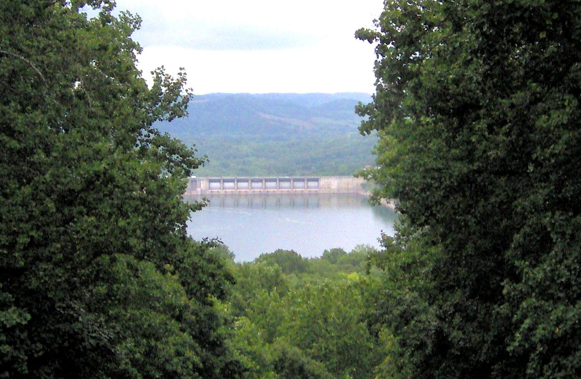 Center Hill Dam, viewed from the observation tower at Edgar Evins State Park in DeKalb County, Tennessee, in the southeastern United States.